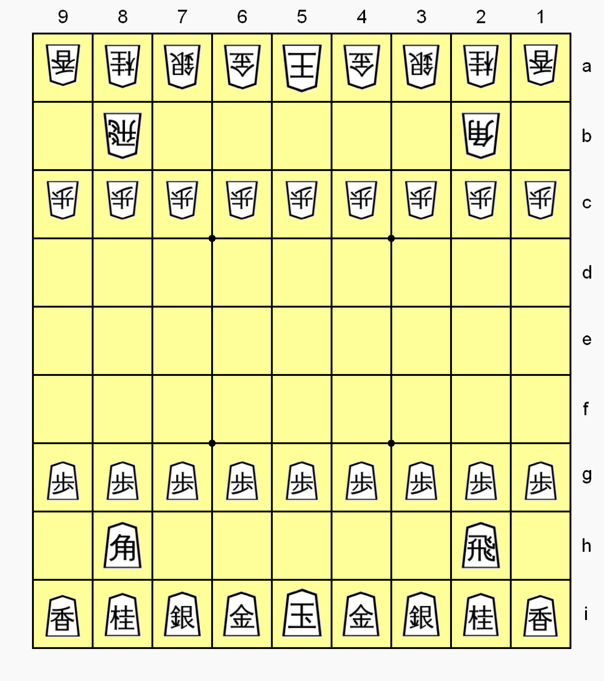 Shogi starting position. Using shogi pieces by User:Perey (Shogi.svg), but modified. All done in MS PAINT.